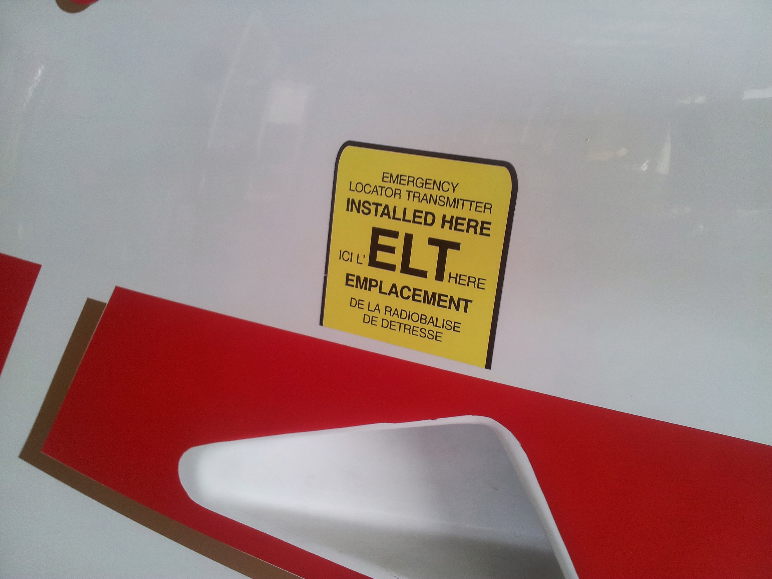 ELT on a airplane